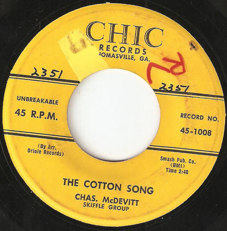 The Cotton Song by the Chas McDevitt Skiffle Group, Chic 1957.